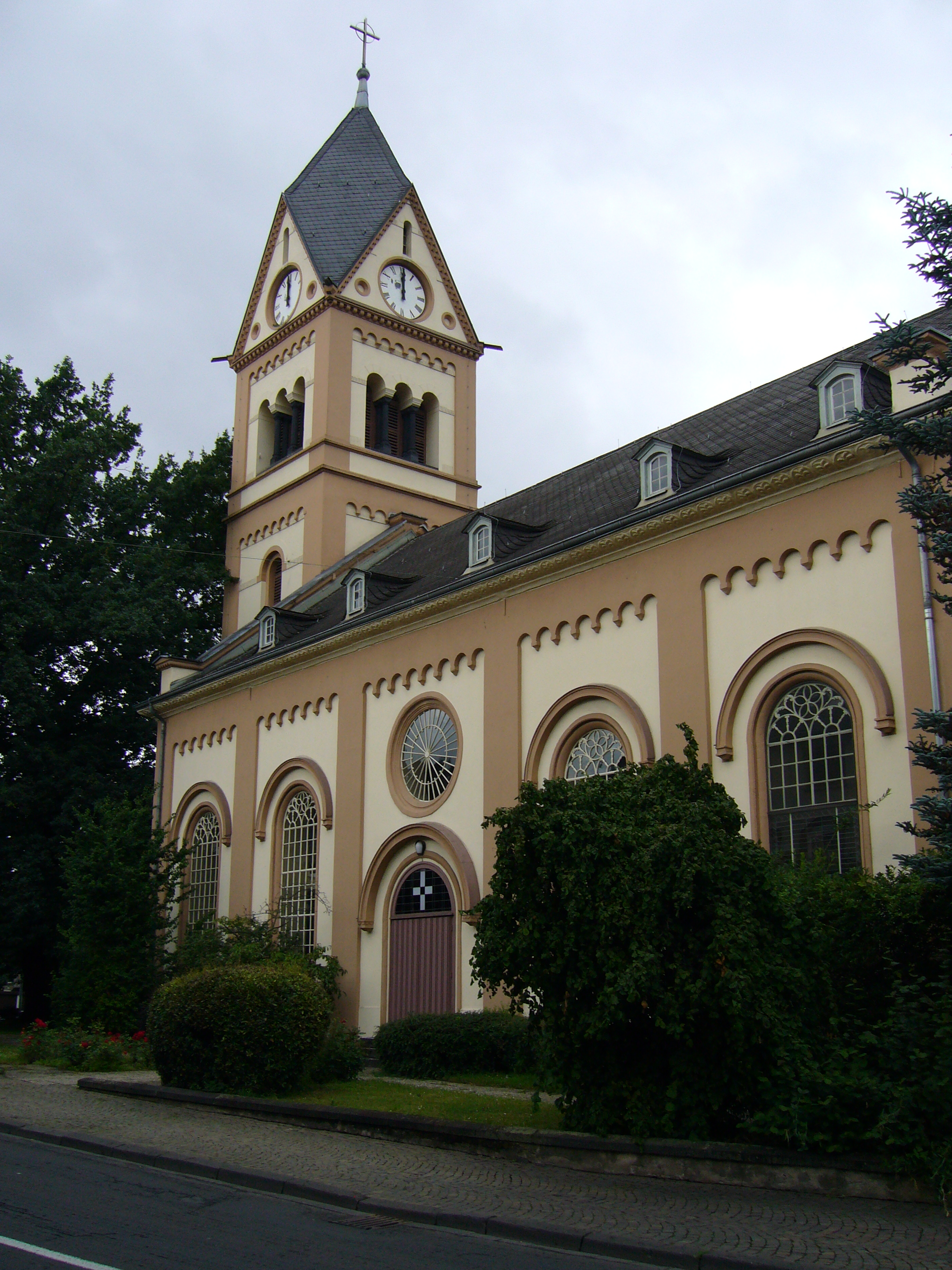 Protestant church of Heddesdorf